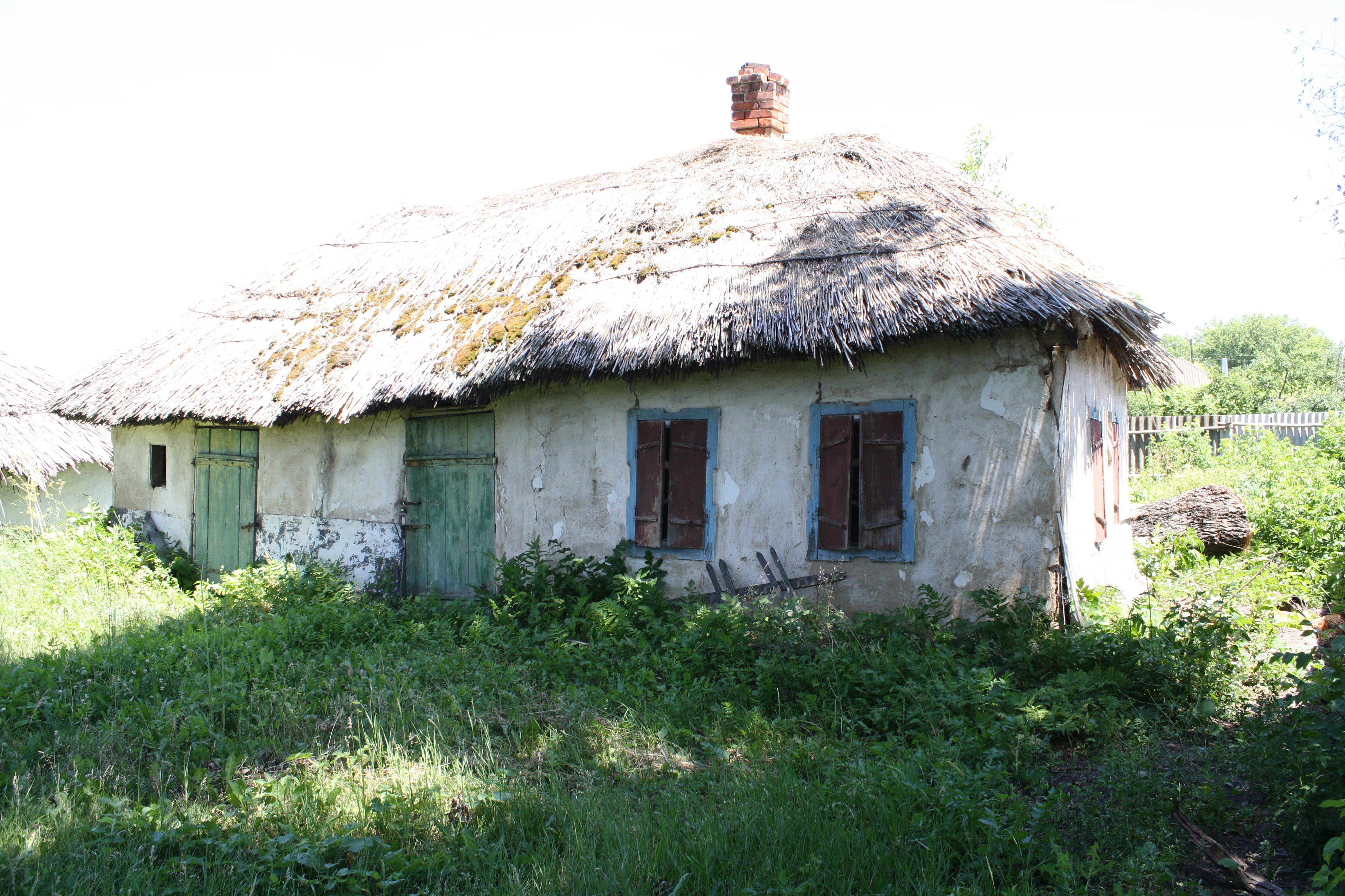 19th century ukrainian khata in Kruhliakivka, Kharkiv Oblast, Ukraine